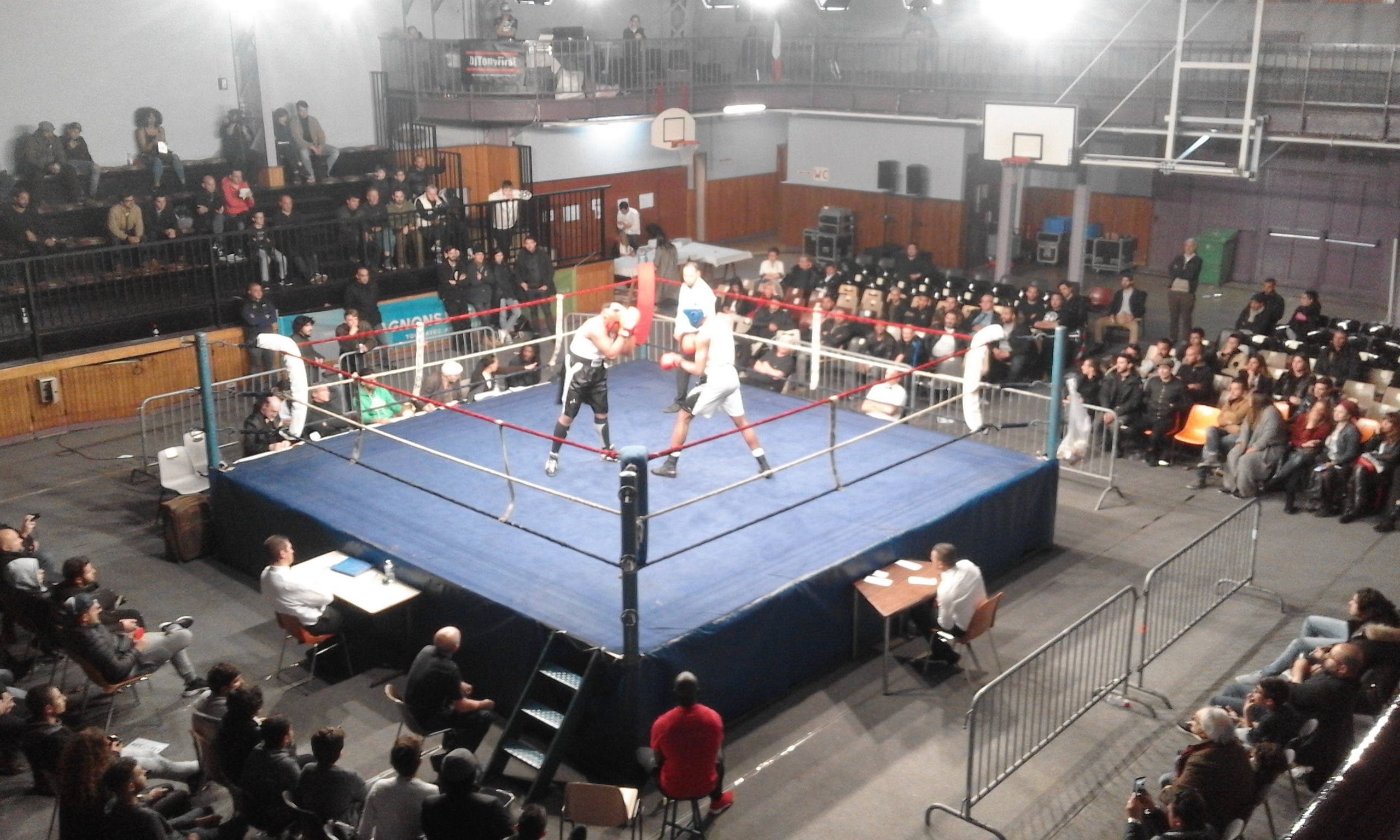 Amateur fight in Paris, France